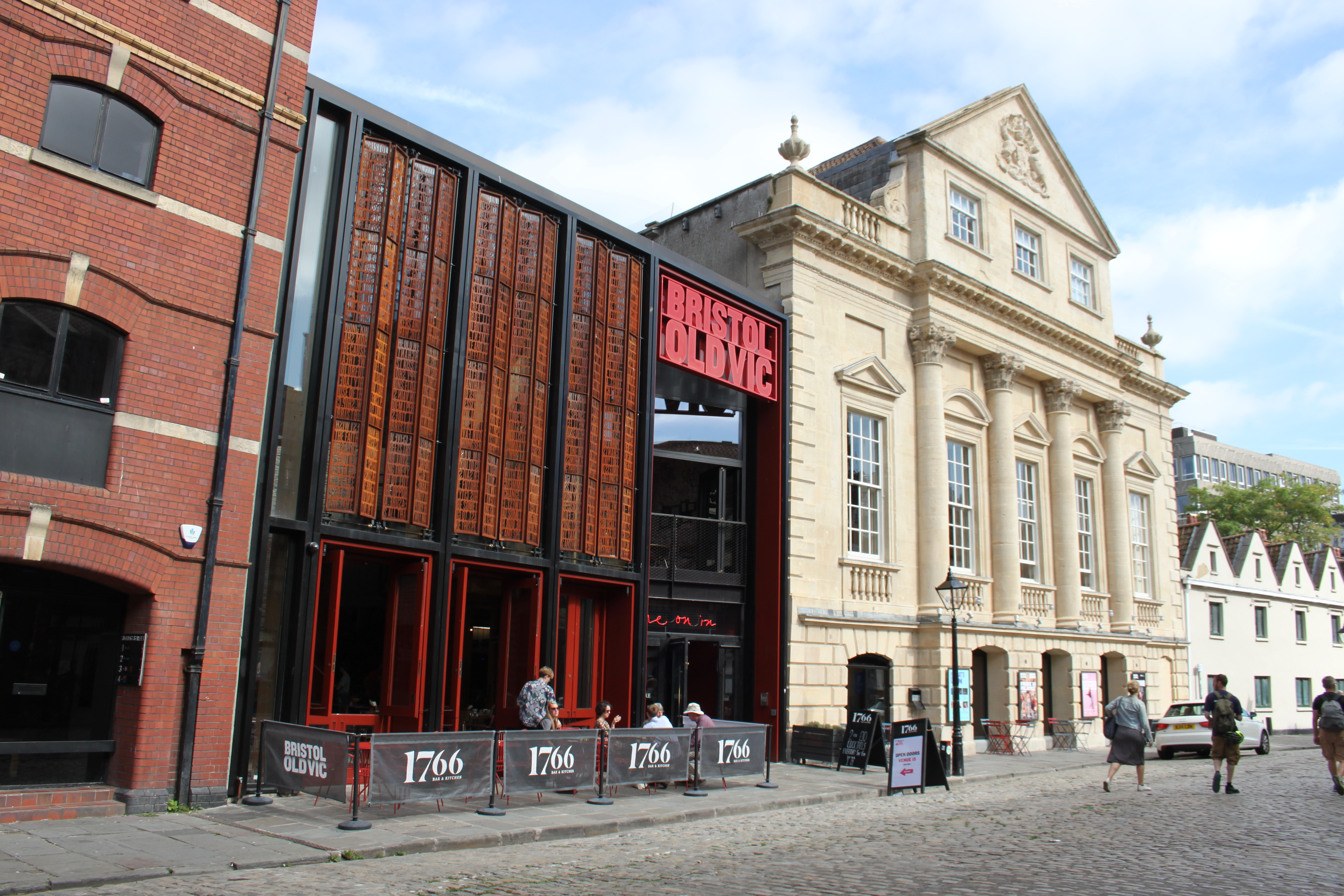 Bristol Old Vic Wikidata has entry Q917960 with data related to this item.